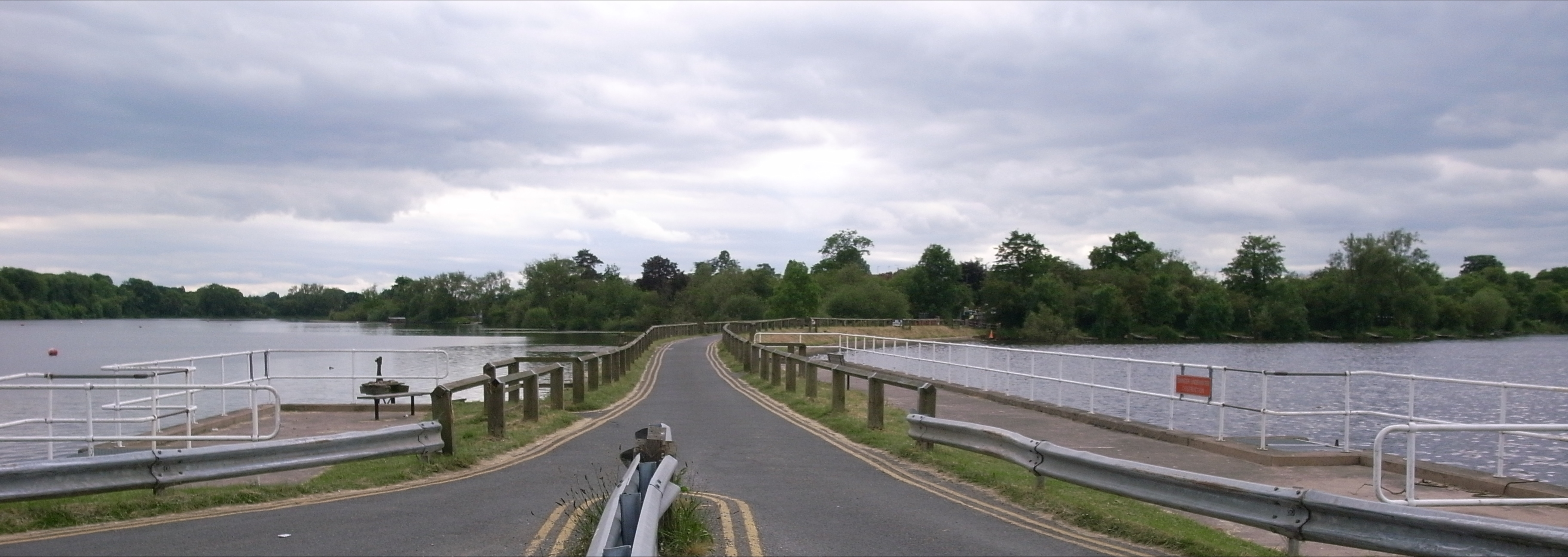 Windmill Pool (left) and Engine Pool (right), two of the three reservoirs at Earlswood Lakes, Earlswood, Warwickshire, England.